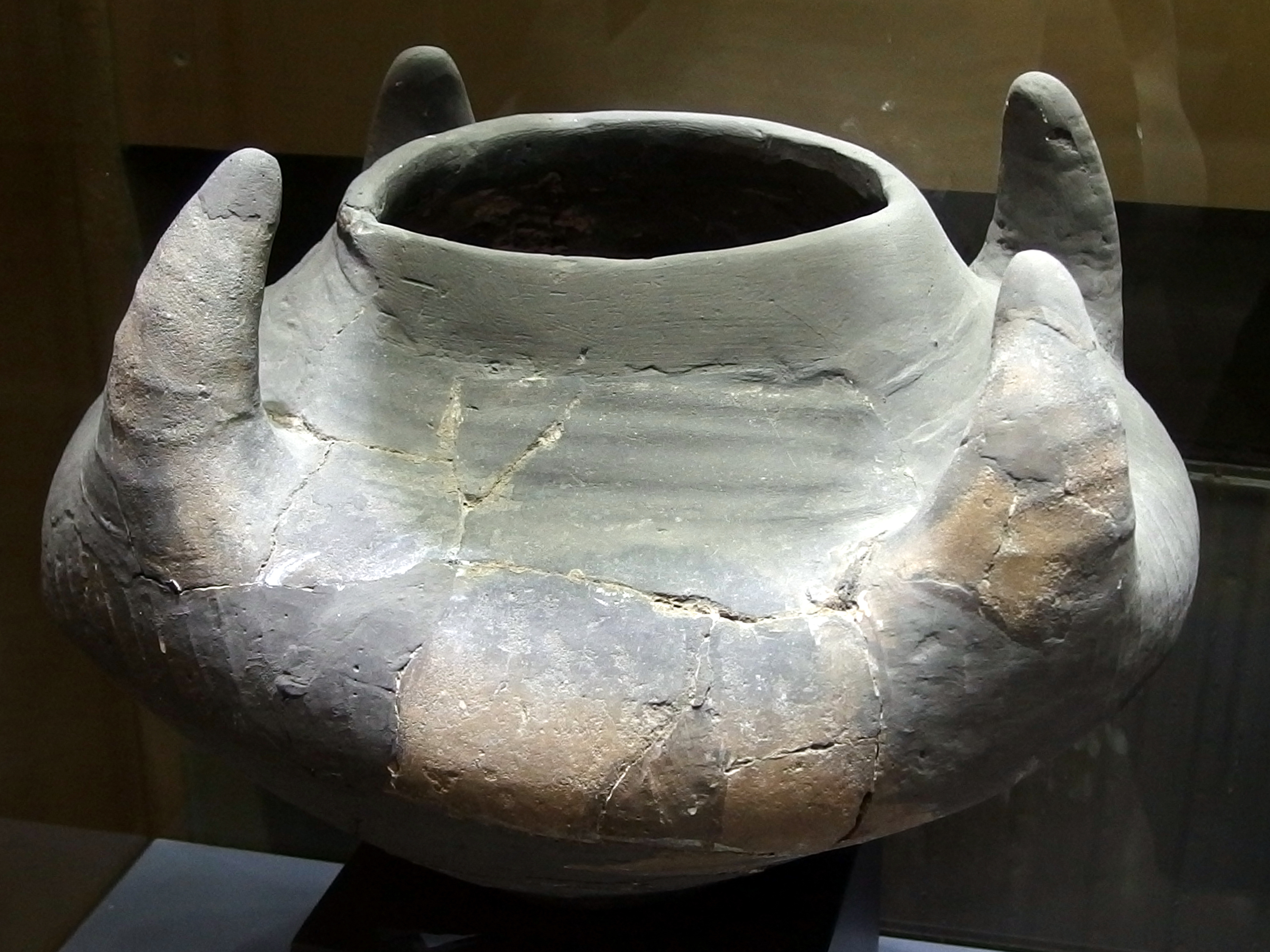 2014-06-11 in Varna.